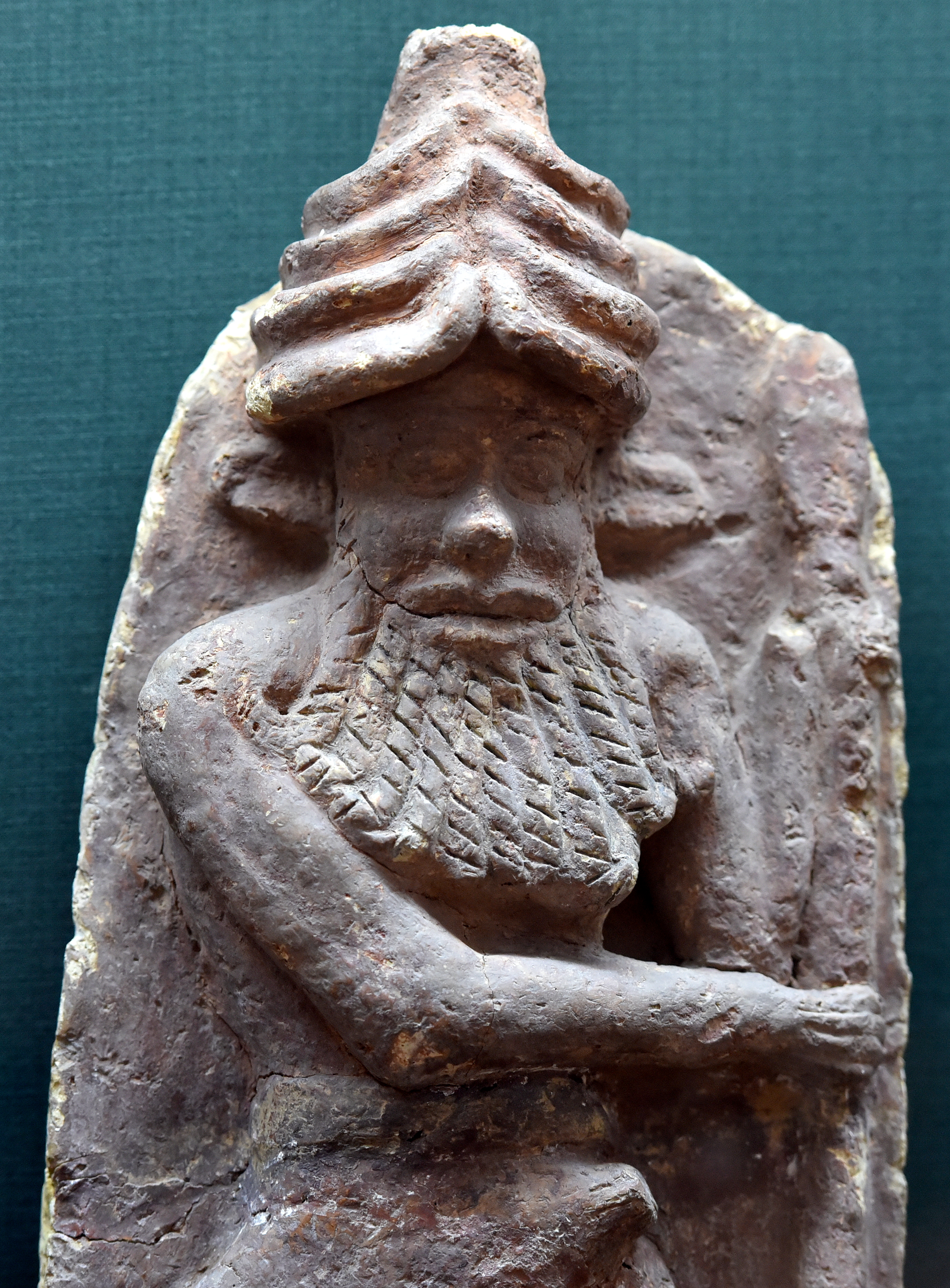 Terracotta wall panel depicting Enkidu, Gilgamesh's friend. He wears a horned helmet and his lower body is bull-like (not shown here). From Ur, Iraq. 2027-1763 BCE. On display at the Iraq Museum in Baghdad, Iraq